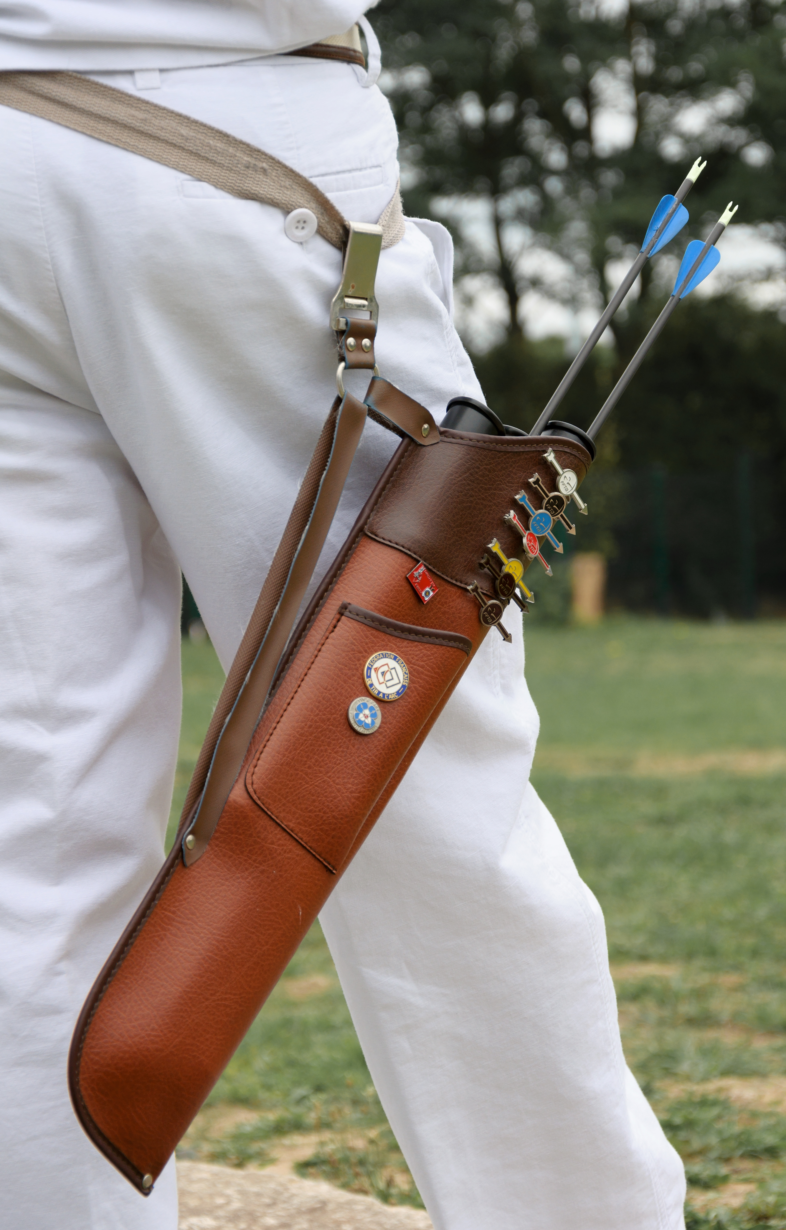 Belt quiver of an archer during a meeting in Île-de-France.